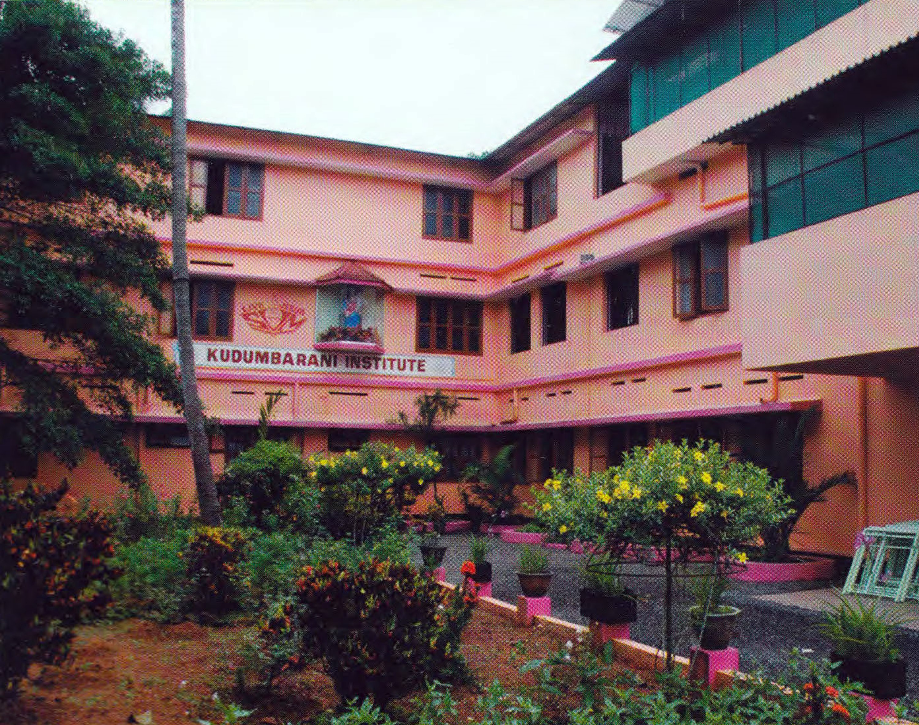 Kudumbarani Institute for ladies administered by Visitation Convent at Cherpunkal Kalloor Church.